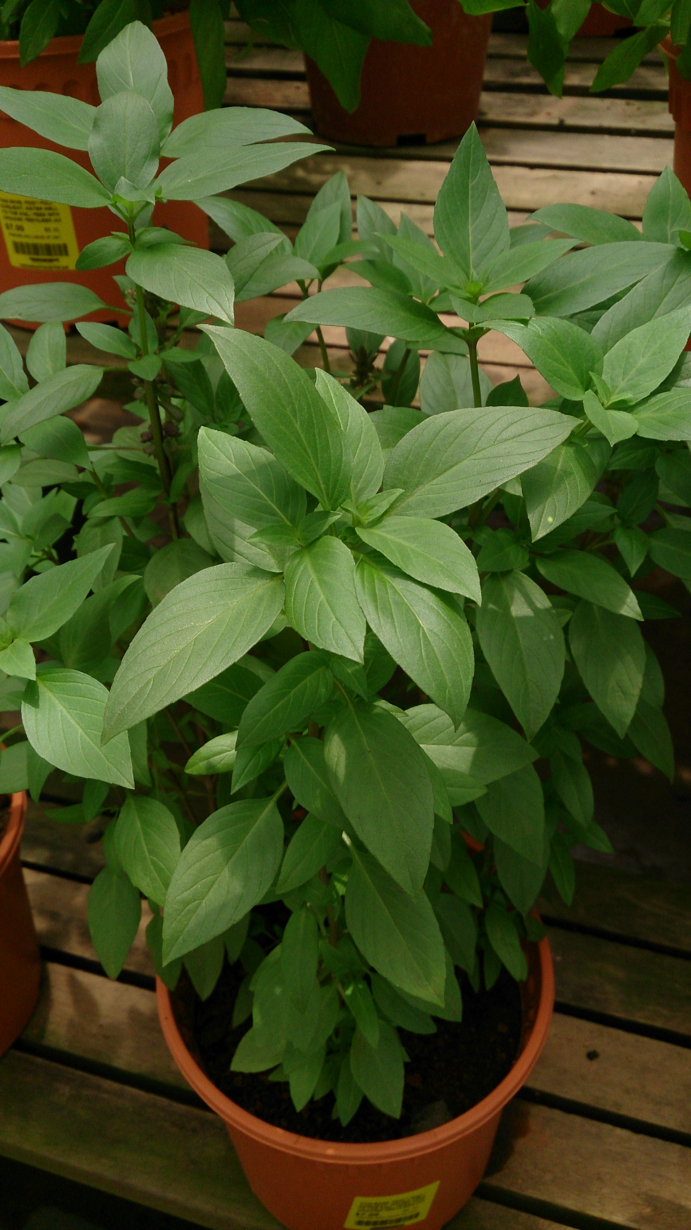 Ocimum basilicum 'Horapha'. Common name: Thai Basil.